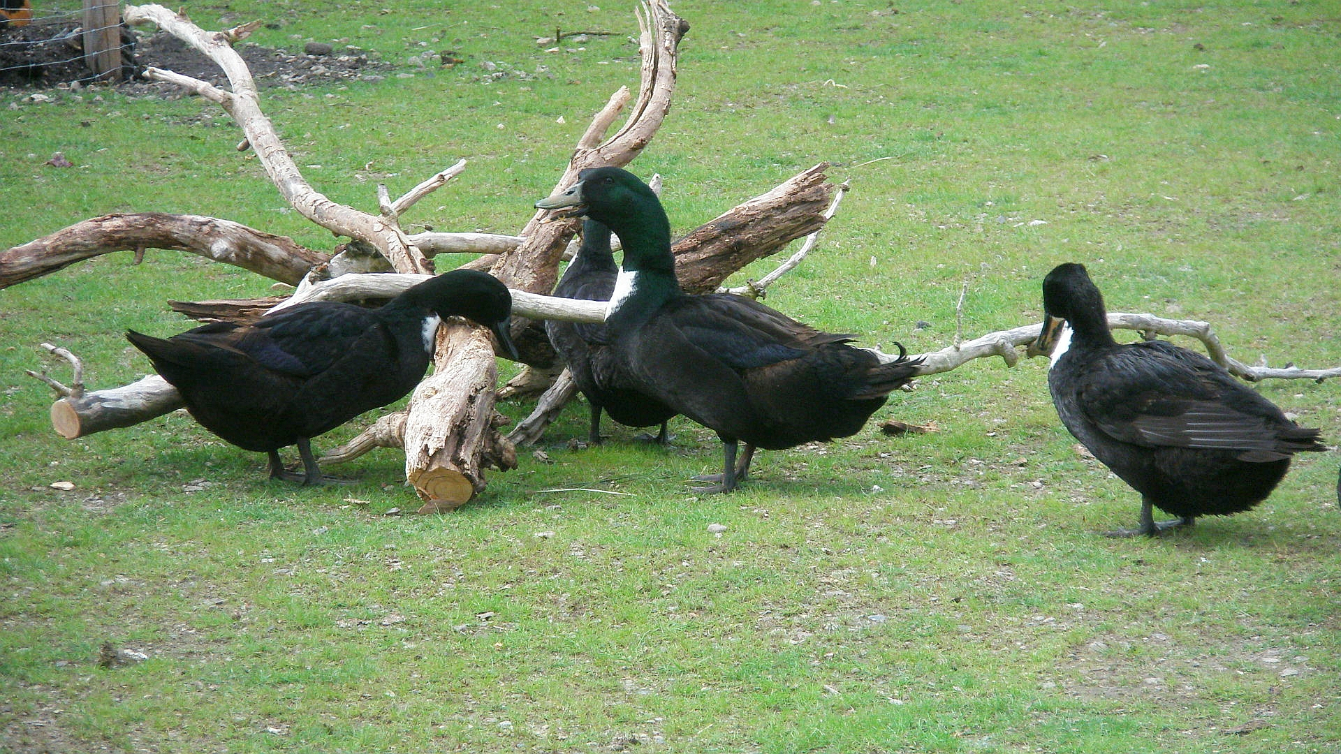 Pommeranian ducks